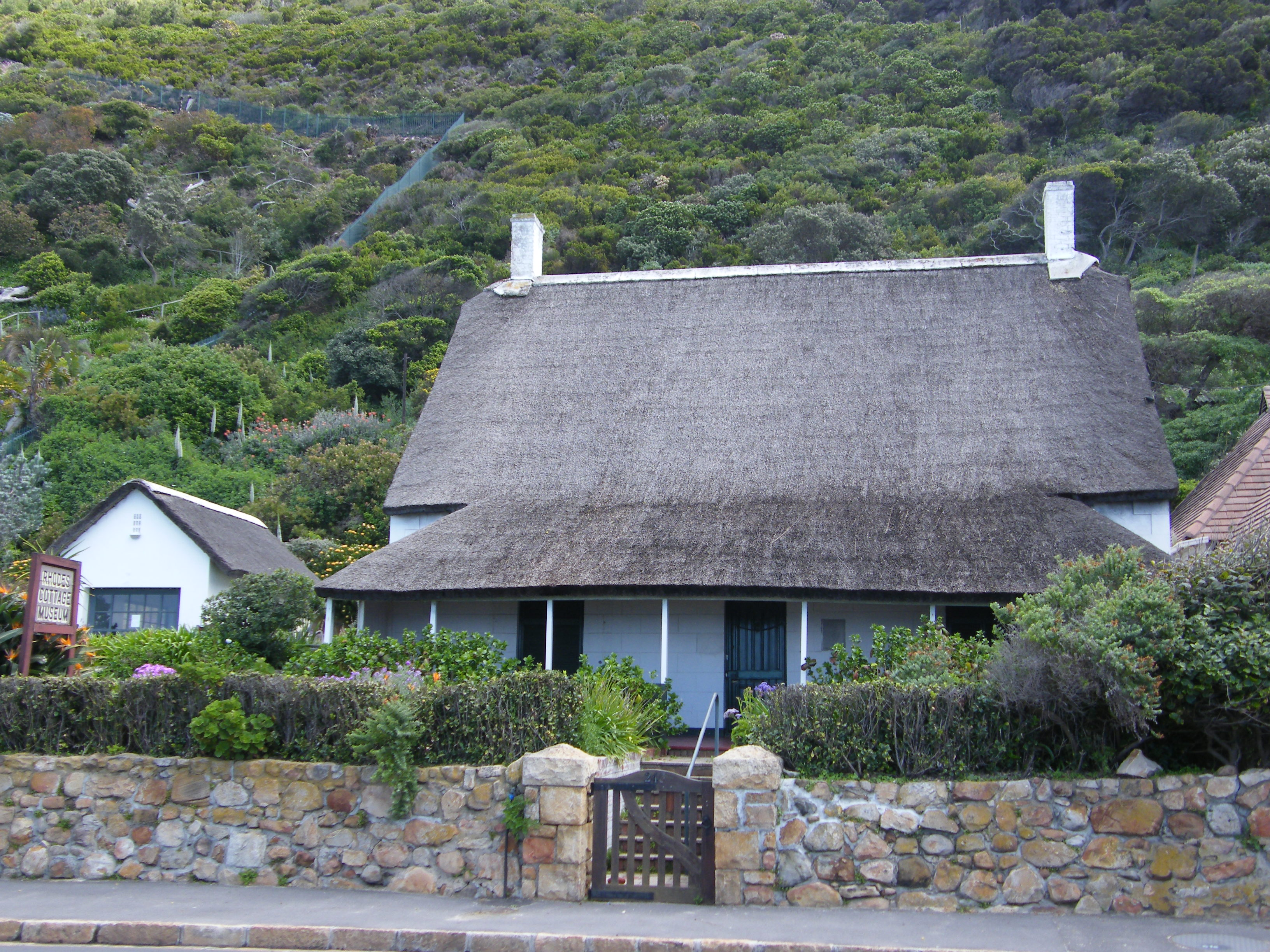 Rhodes Cottage